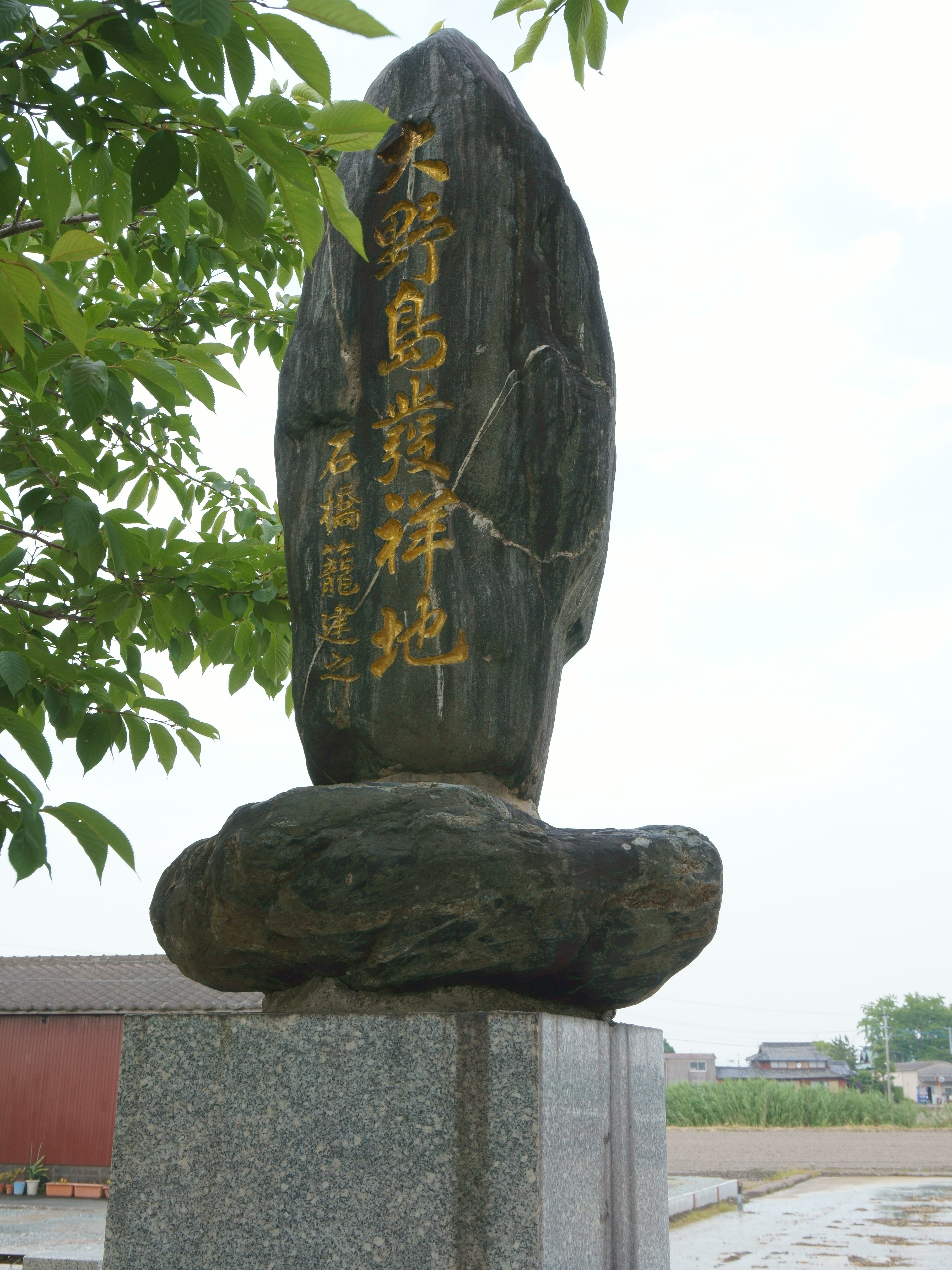 A monument of origin of development in Ōnojima Island(delta of Chikugo River) in late 16th century to early 17th century.